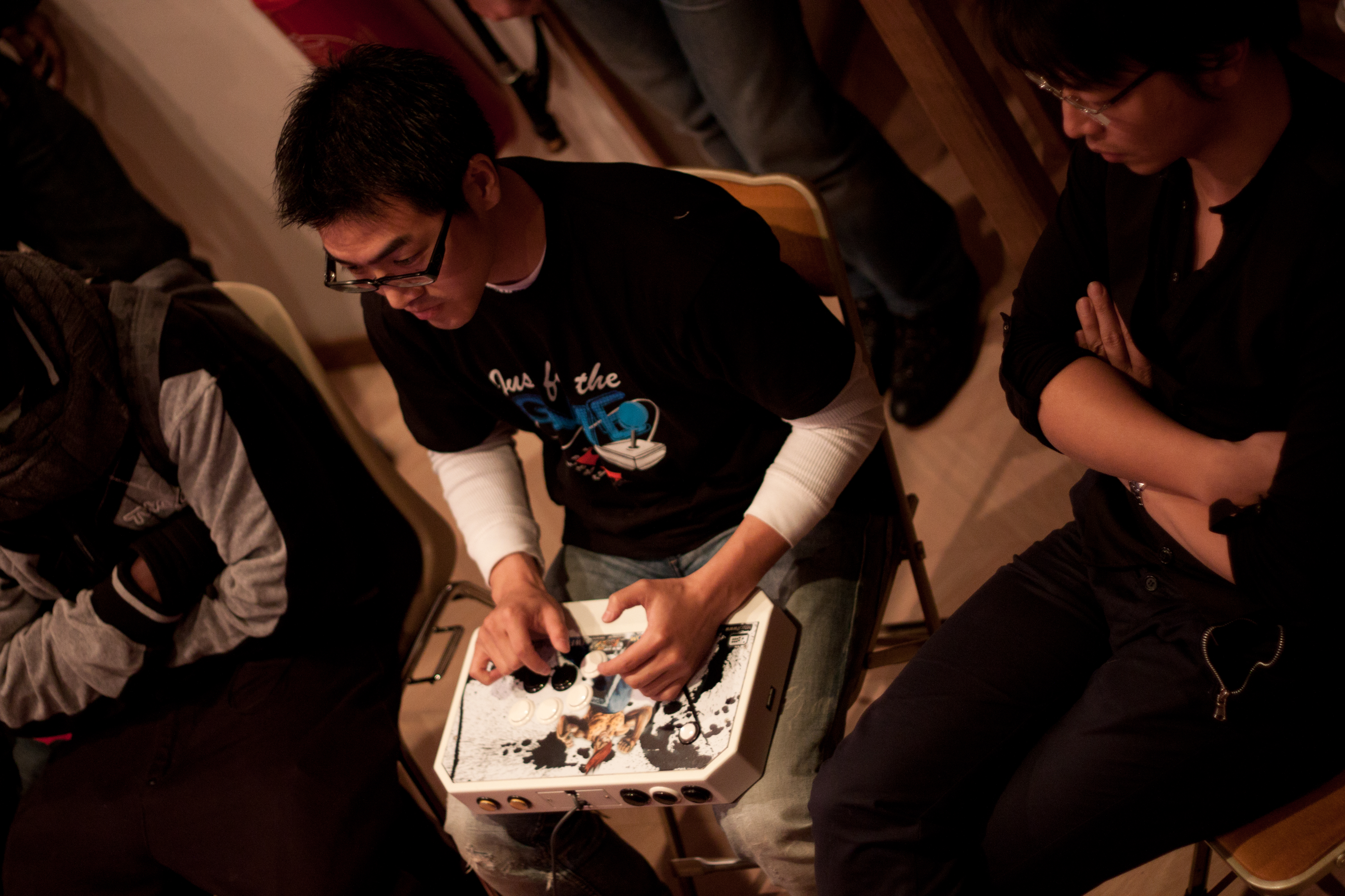 Bruce Yu-lin Hsiang (GamerBee) at Bushido International in December 2010.